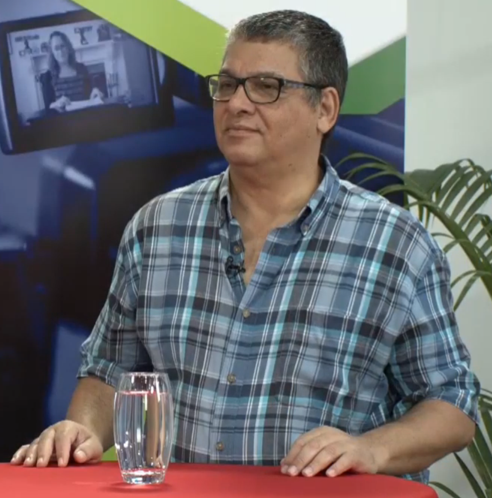 John Krishnadath, Surinamese sociologist